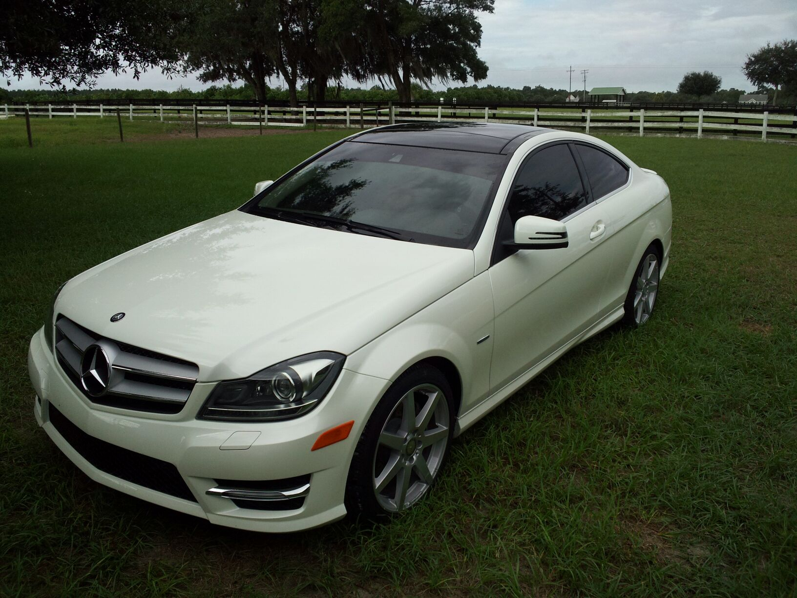 Mercedes Benz C350 Coupe